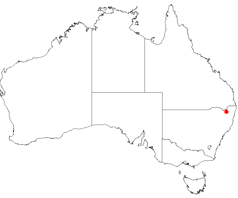 Homoranthus croftianus Occurrence data from AVH downloaded 28 September 2018